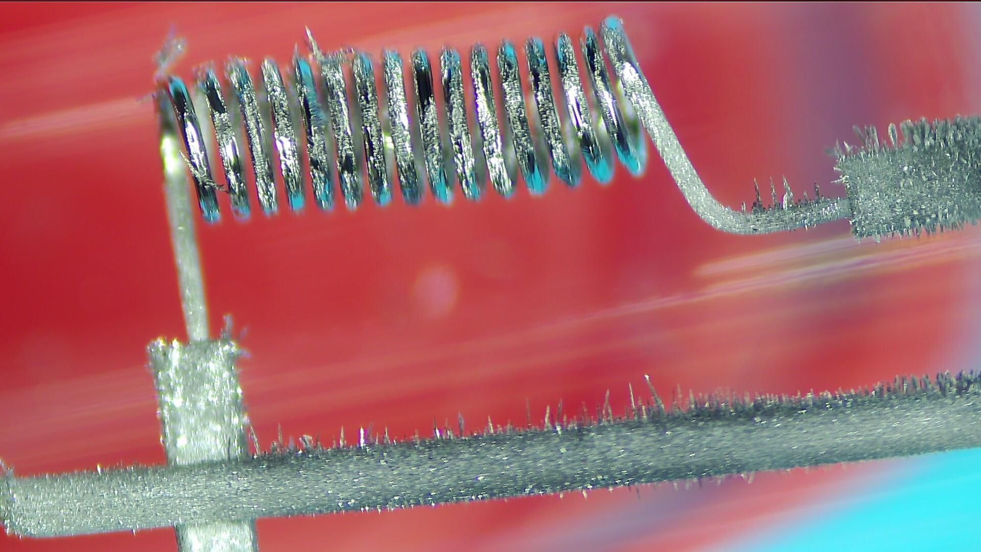 Tungsten crystals that has grown in halogen bulb